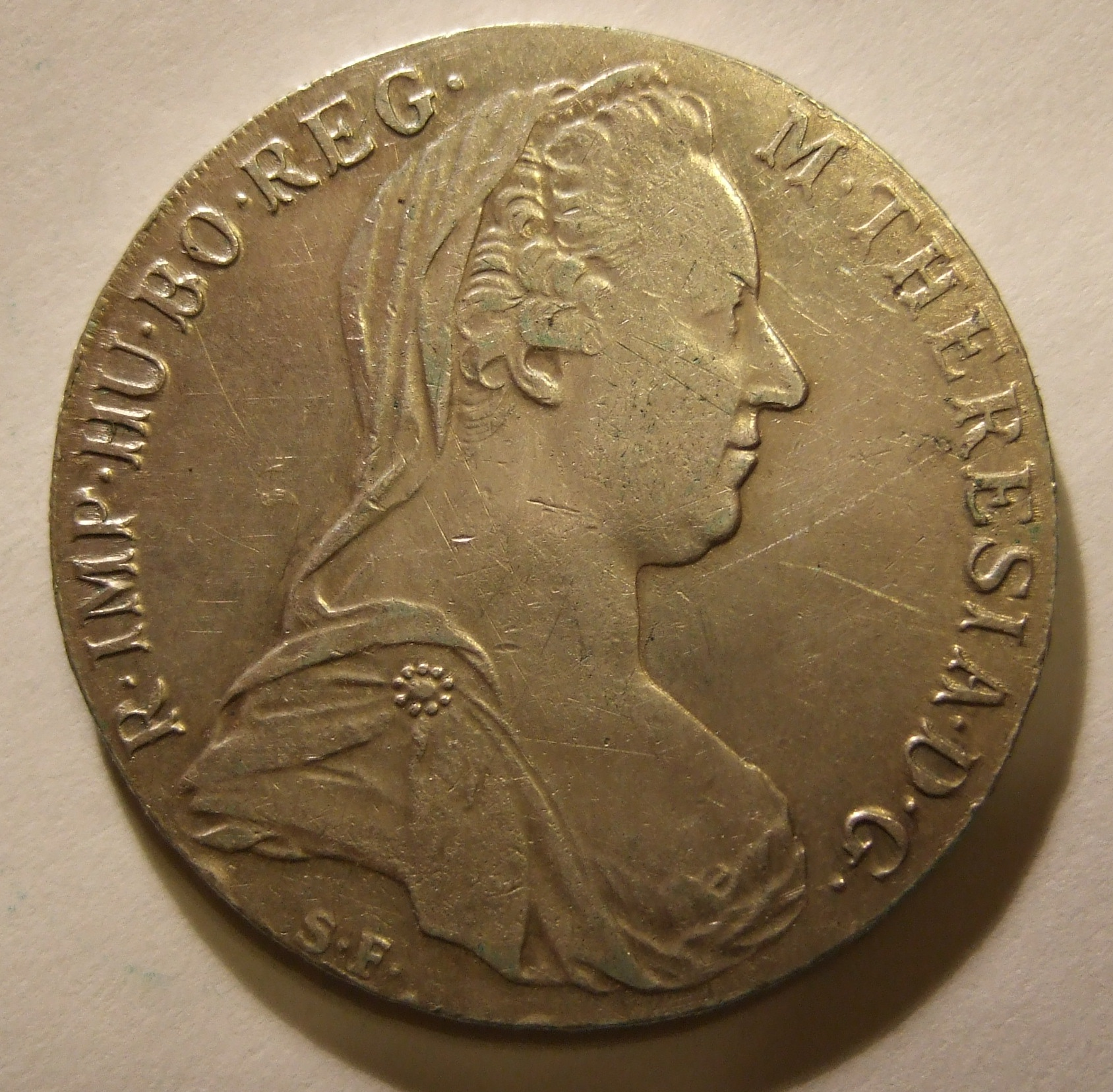 AUSTRIA-HUNGARY MARIA THERESA 1780 ---THALER b